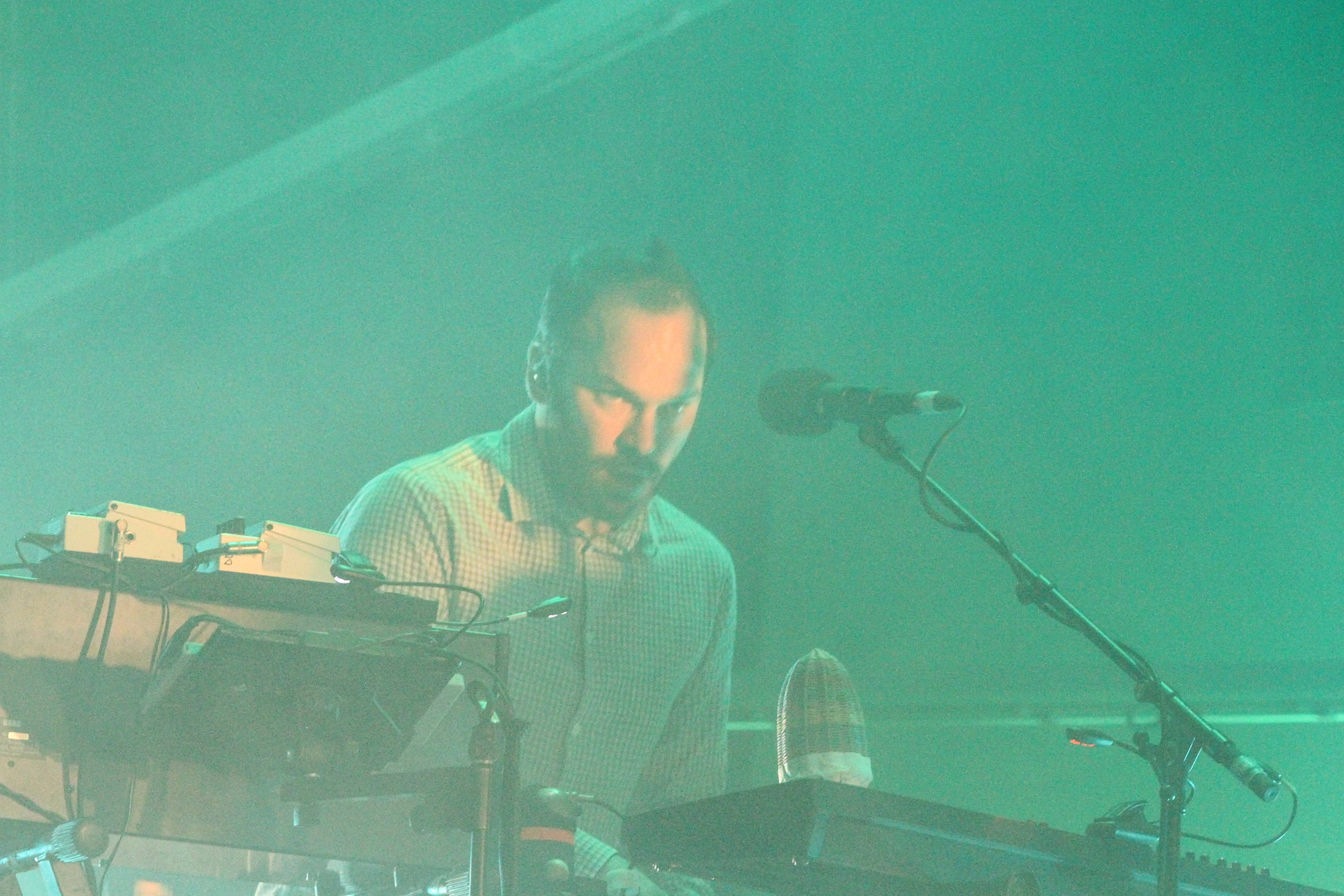 Atoms For Peace performing at Melt! Festival 2013